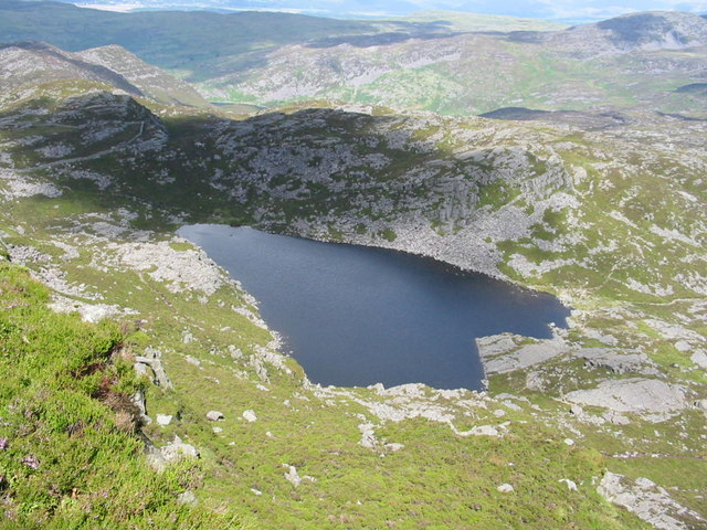 Llyn Du Looking down from high on Rhinog Fawr